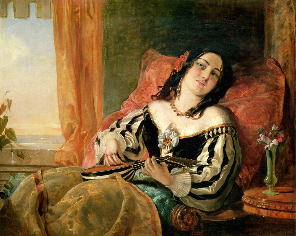 Oil on canvas painting by John Phillip; A Lady Playing the Mandolin, painted in 1854. H 51 x W 61 cm. The painter was painting Spanish subjects at this time, so it needs to be considered whether the instrument is not a mandolin but a bandurria. 8 strings (known from looking at the peghead) make it likely to be a mandolin. Bandurrias by this time likely had 12 strings. Picture of the painting by Wolverhampton Arts and Heritage; Image from the Wolverhampton Art Gallery. Wolverhampton Art Gallery's page for this painting.